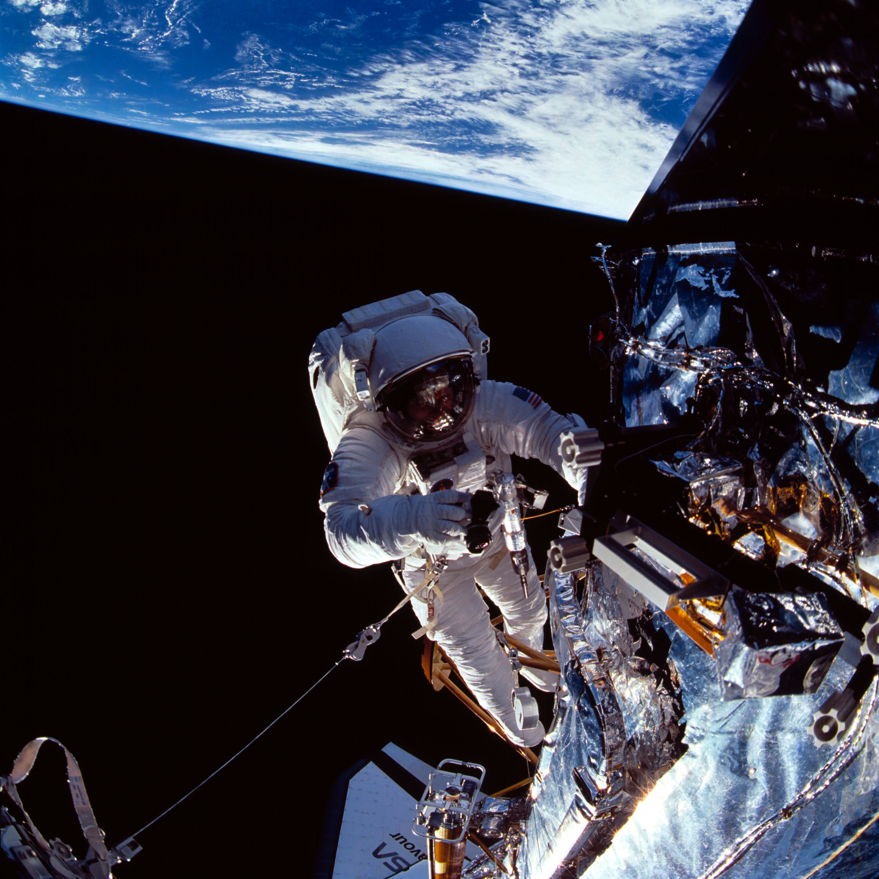 F. Story Musgrave near the top of the Hubble Space Telescope during the final EVA of STS-61.